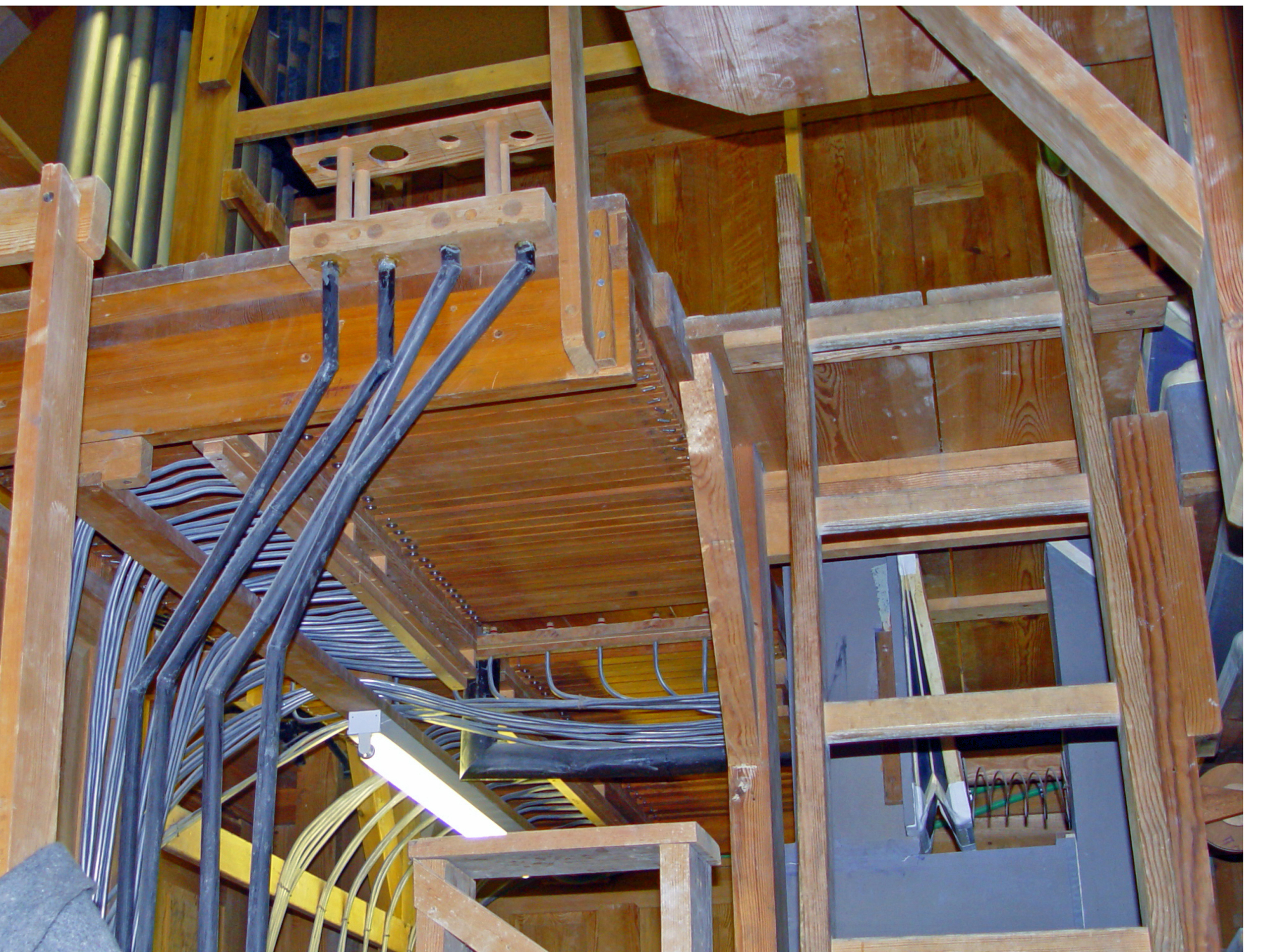 The Lutheran Ascension Church at Augusta Victoria Foundation, Jerusalem; Inner view of organ mechanism assembly undergoing overhaul.